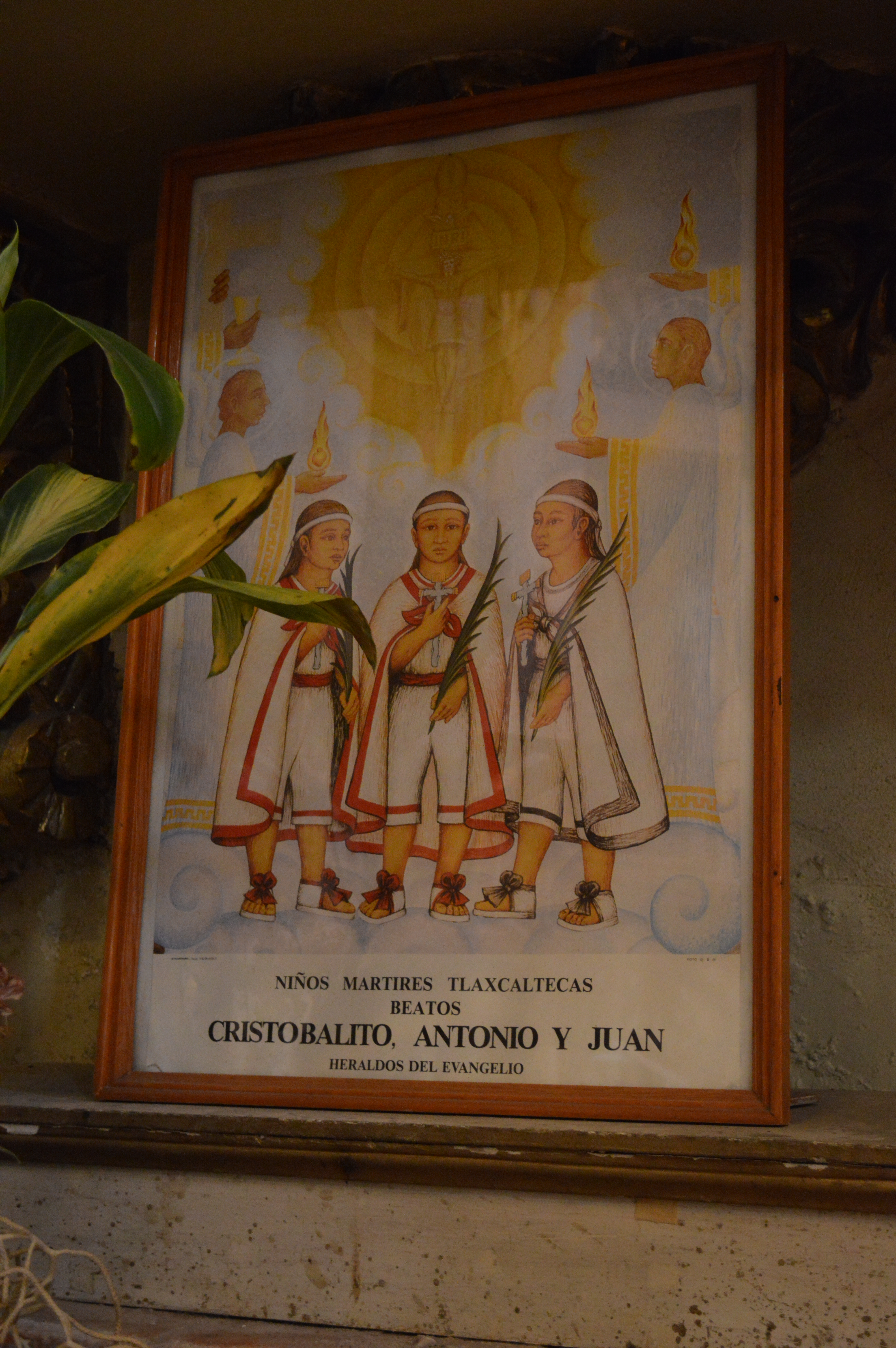 Image of the three children martyrs of Tlaxcala, Cristóbal, Juan and Antonio at the parish of San Luis Obispo, Tlaxcala, Mexico